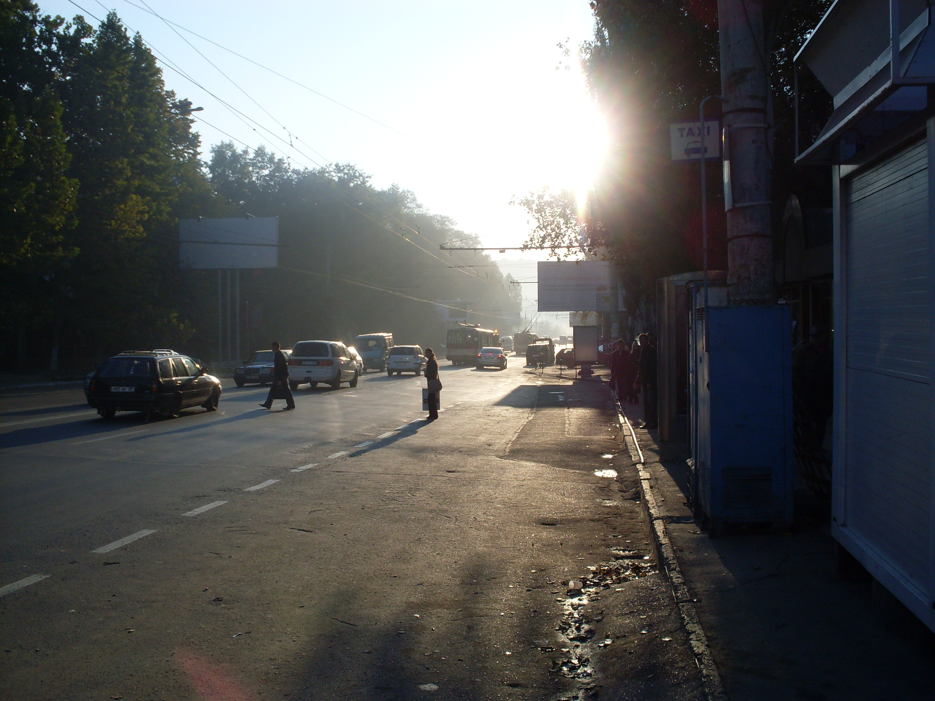 The Alecu Russo street in Chisinau, seen from the Alecu Russo square.